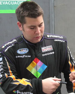 Kyle Krisiloff signing an autograph to a fan at the 2008 NASCAR Nationwide Series event at Mexico City